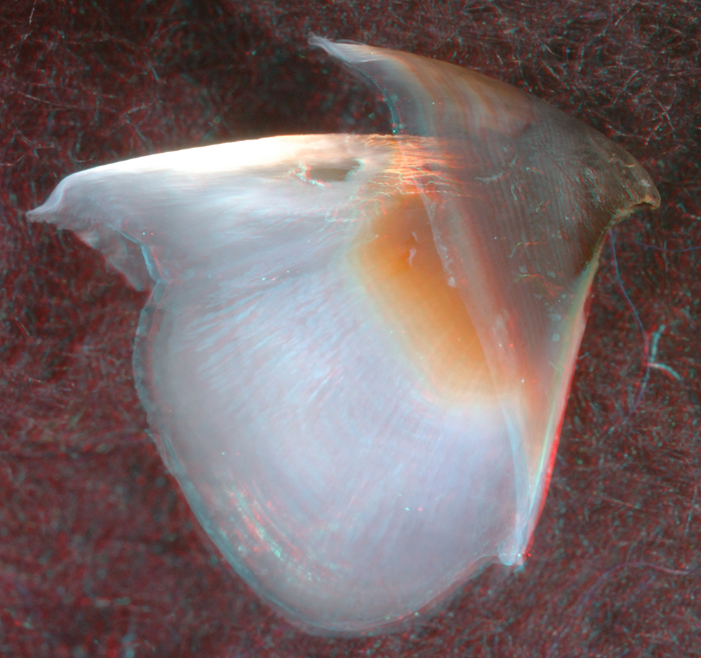 Upper beak of female Argonauta argo (63 mm ML; 6.6 mm HL; 10.8 mm CL). Extracted from intact specimen found in stomach of Alepisaurus ferox from central North Pacific (34°N 140°W / 34°N 140°W; collector Anela Choy).